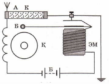 Fizika 3.19